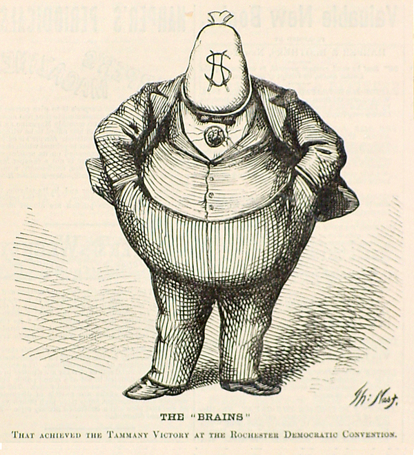 Thomas Nast caricature of Boss Tweed in Harper's Weekly, October 21, 1871 Title: The "BRAINS" that achieved the Tammany victory at the Rochester Democratic Convention / Th. Nast. Creator(s): Nast, Thomas, 1840-1902, artist Date Created/Published: 1871. Medium: 1 print : wood engraving. Summary: Boss Tweed represented as having a money-bag face. Another identifying feature is the $15,500 diamond stickpin.